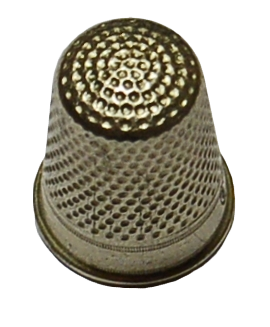 Thimble